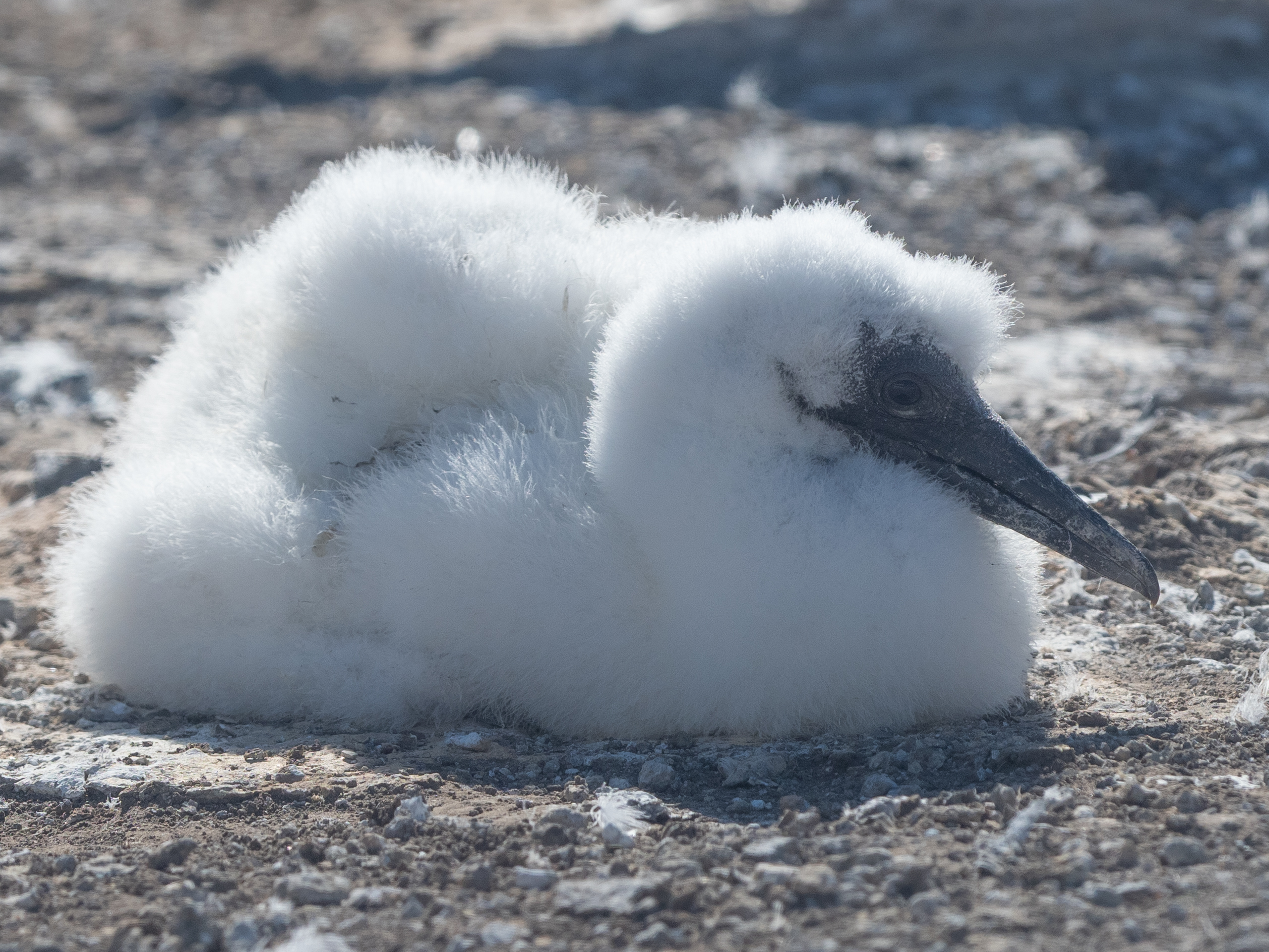 Gannet colony in Napier, New Zealand, February 2019